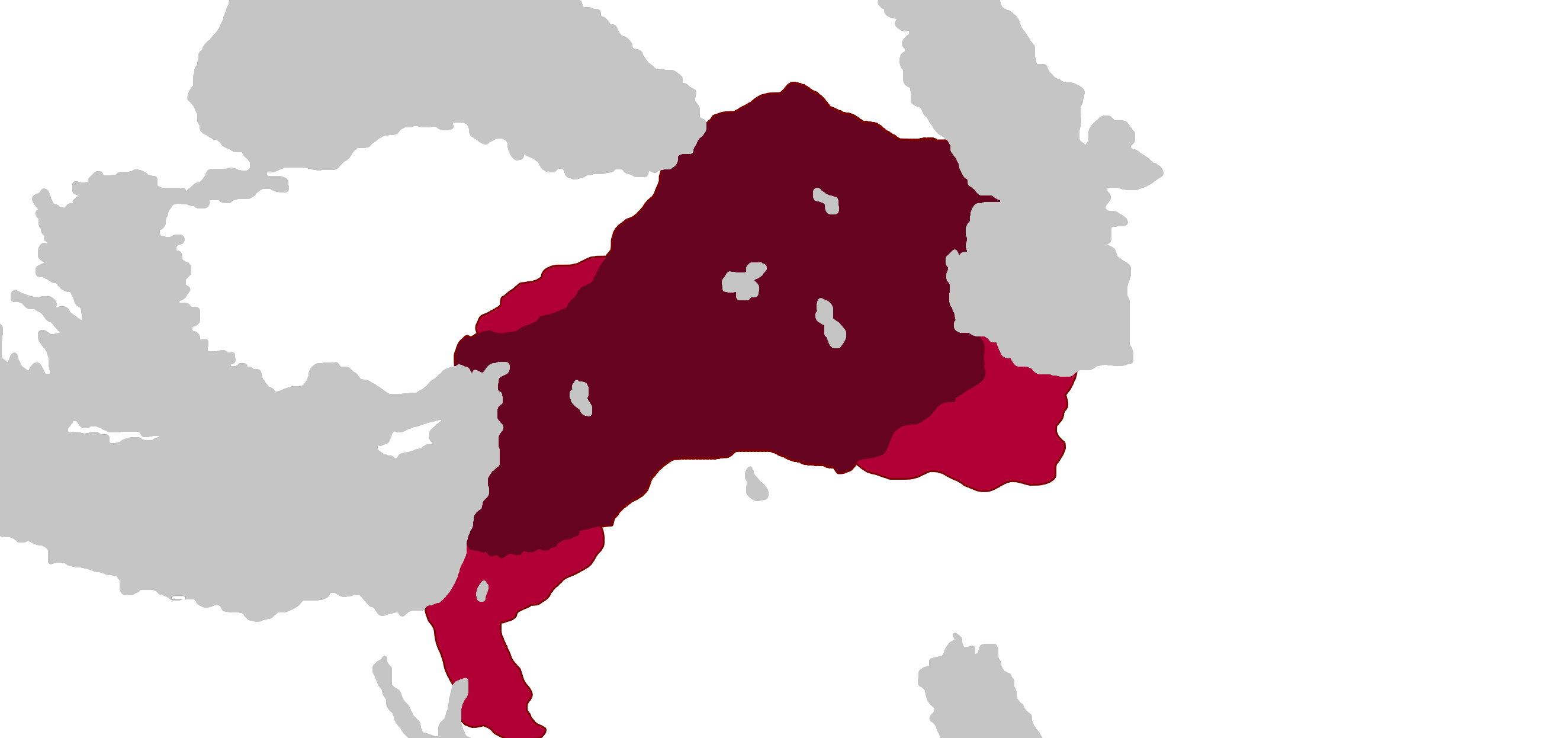 Armenian Empire under king of kings Tigran II in 69 BC. Lighter shades show the extent of Tigran's army. Sources used: Wikipedia and Movses Khorenatsi's "history of Armenia"